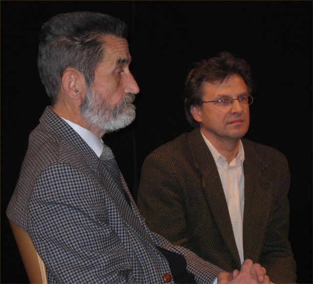 Marek Nowakowski (1935-2014), Polish writer and Marek Zaleski (b. 1952), Polish essayist and literary critic